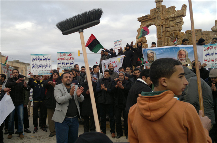 Shahat residents on February 2, 2014, held placards calling for the ouster of the General National Congress.[1]